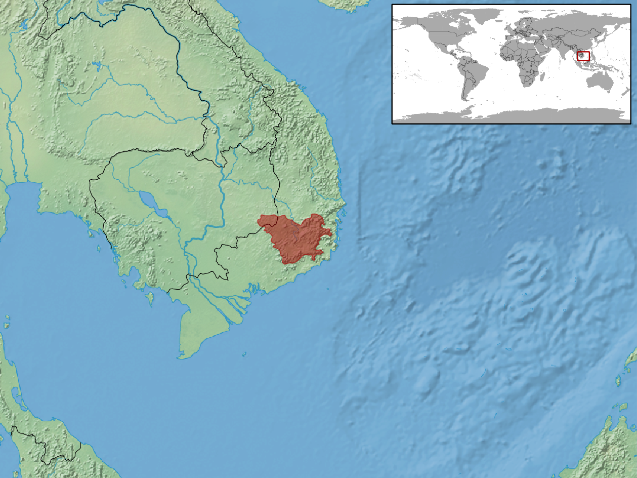 geographic distribution of Bronchocela smaragdina (Native: Cambodia; Viet Nam)